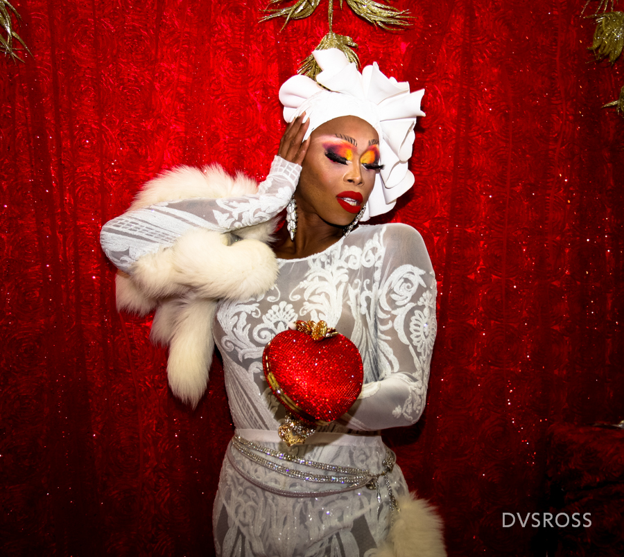 Monique Heart at DragCon 2018